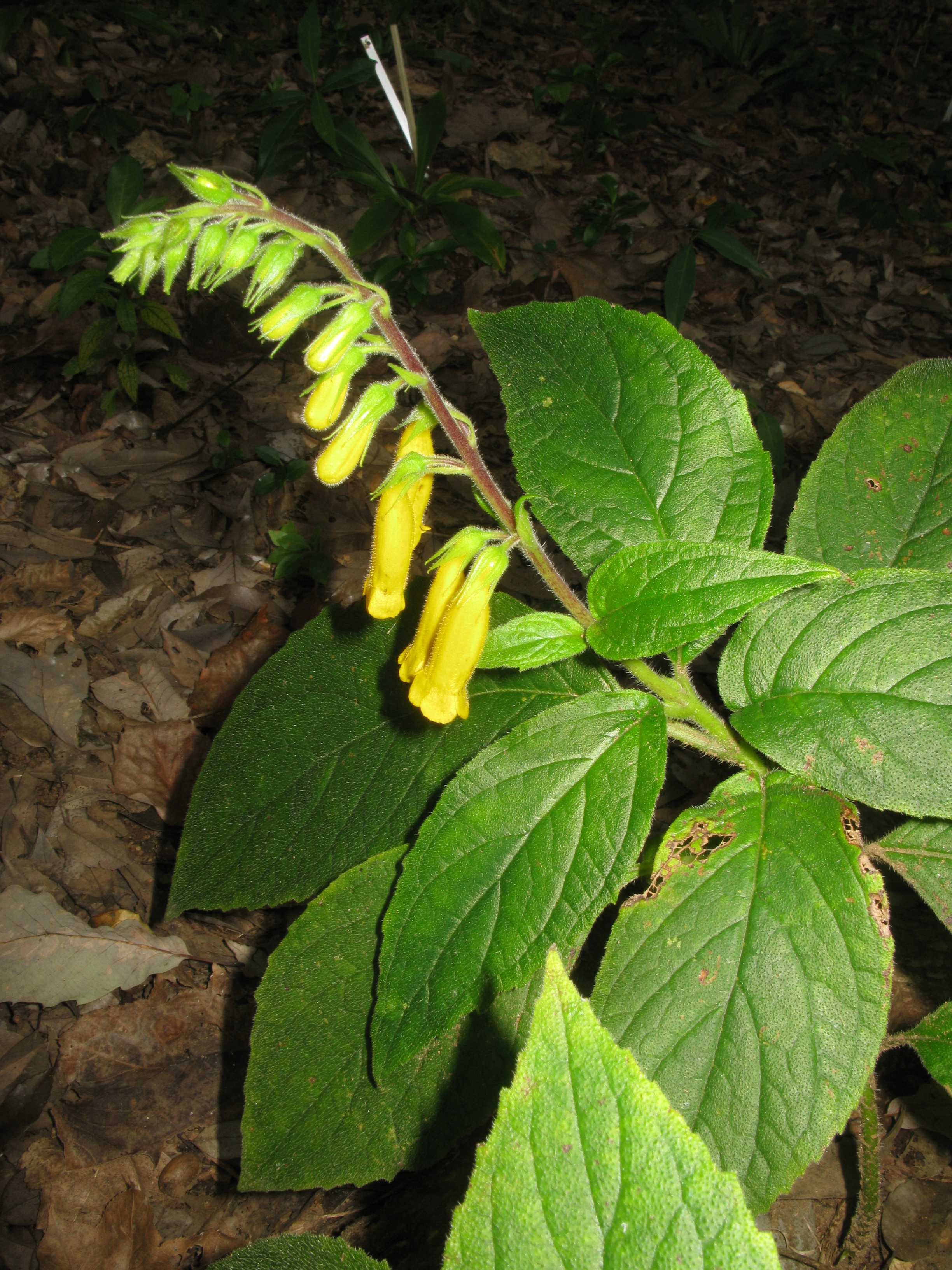 Titanotrichum oldhamii, Tsukuba Botanical Garden, Ibaraki pref., Japan